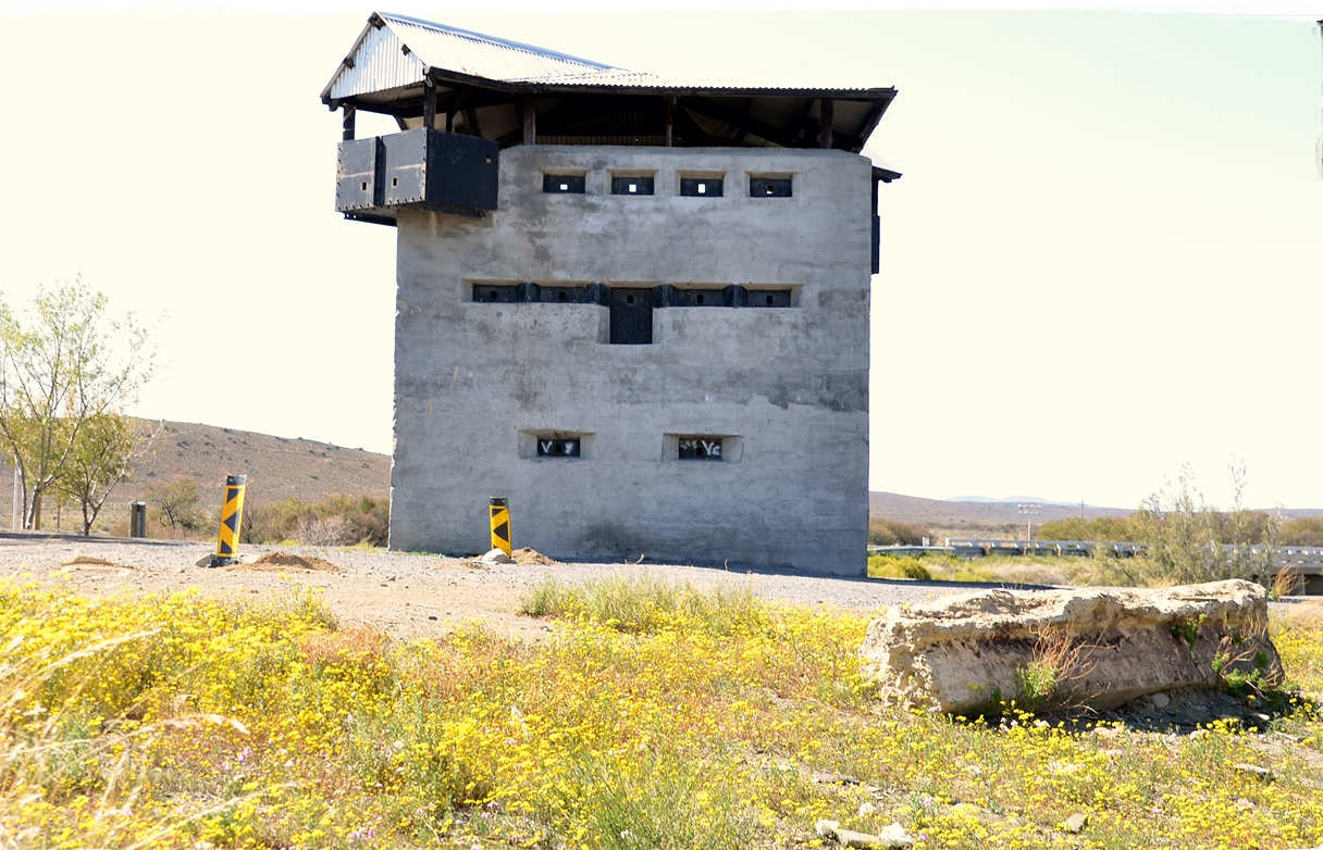 Anglo-Boer War blockhouse, Geelbek River, Laingsburg District, in spring This media shows a South African Protected Site with SAHRA file reference 9/2/058/0007.